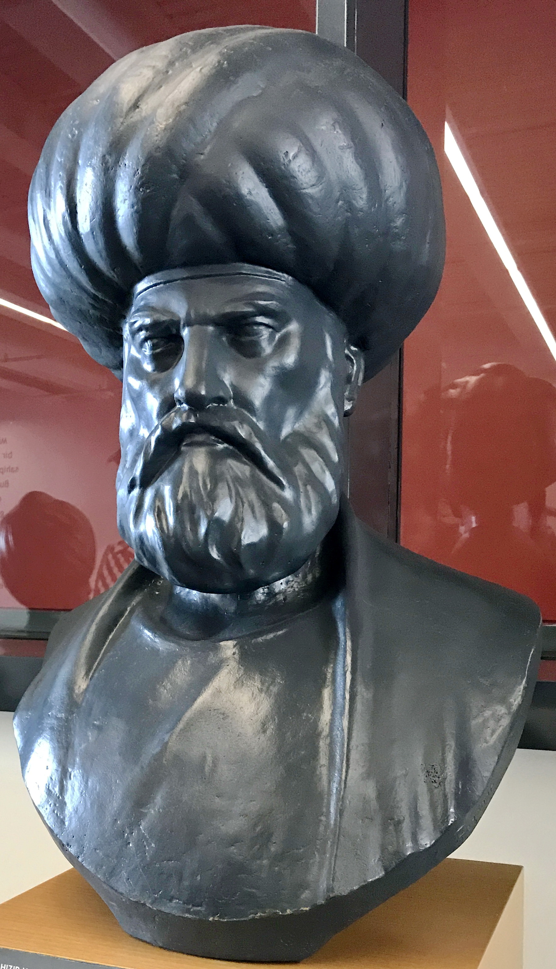 Barbaros Hayreddin Pasha monument at Istanbul Naval Museum.